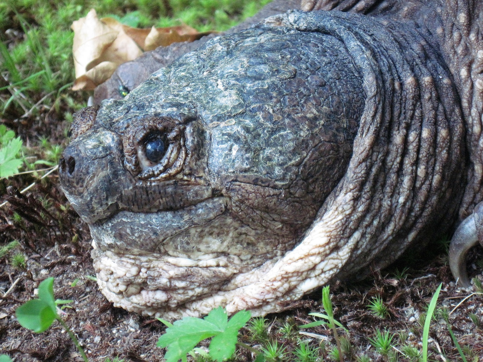 Common Snapping Turtle (Chelydra serpentina) in Mason, New Hampshire.